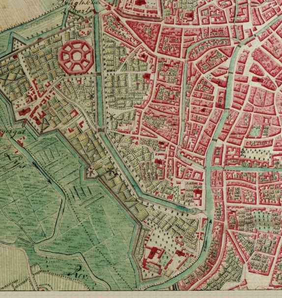 Coupure,_Ghent,_Belgium_;_ detail from Ferraris_Map